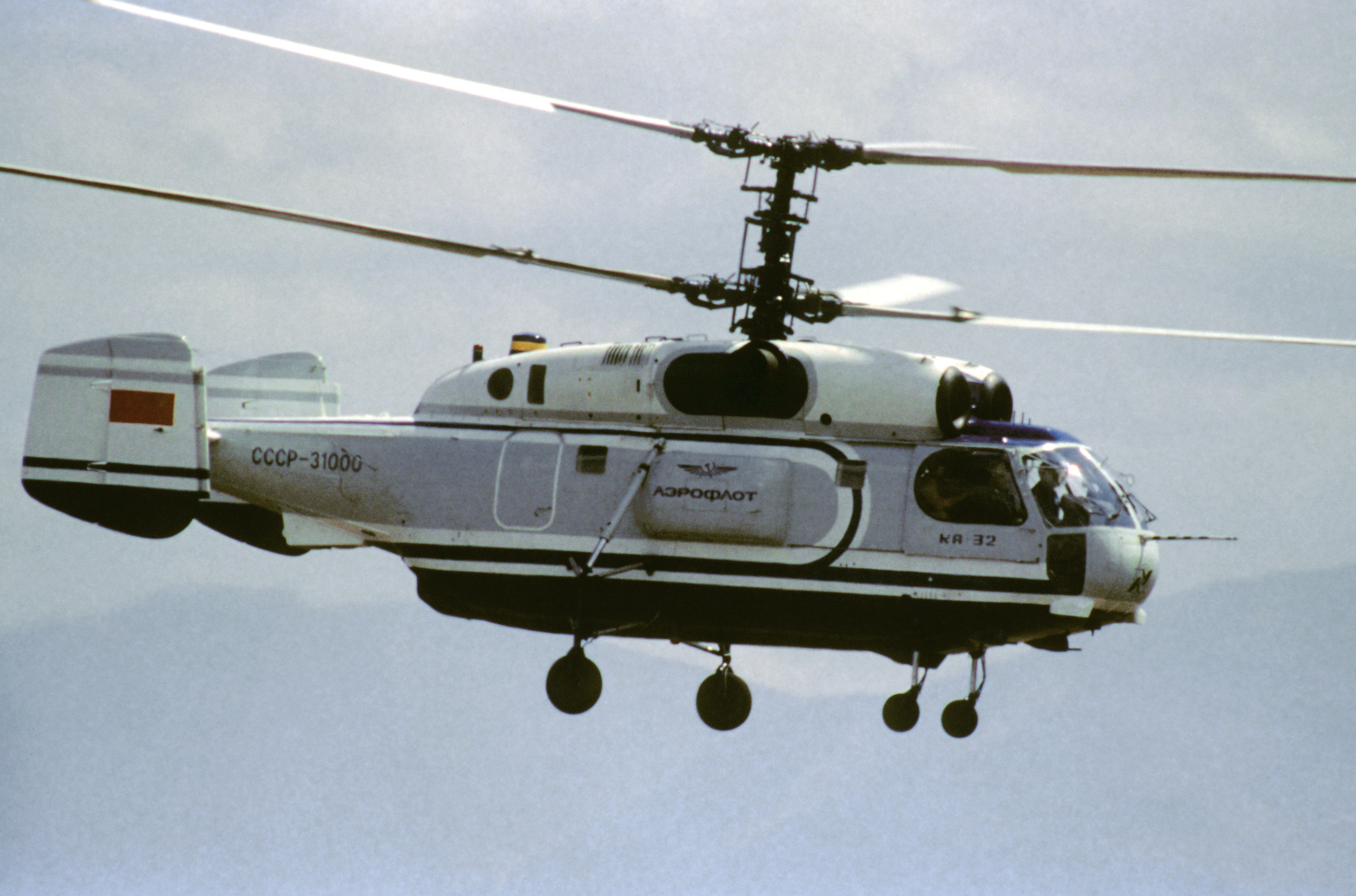 A Soviet Ka-32 (by NATO "Helix") helicopter passes over the airfield during Airshow Canada '89. Location: ABBOTSFORD, BRITISH COLUMBIA (BC) CANADA (CAN)